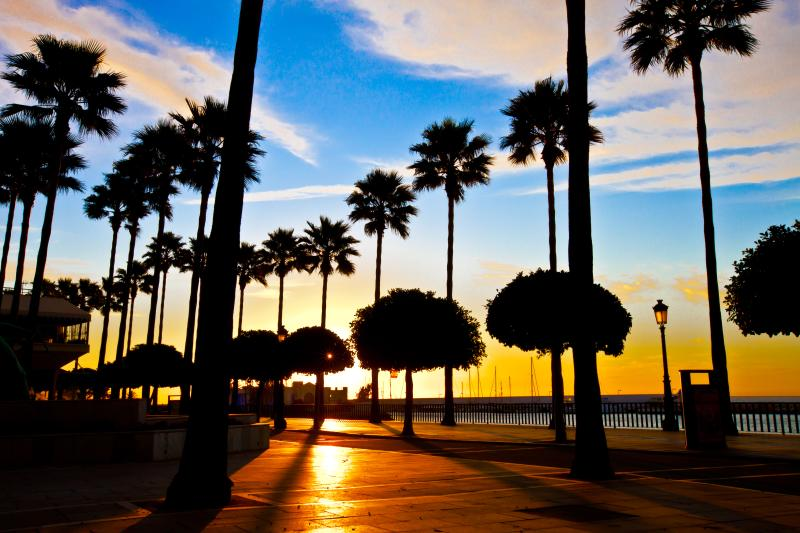 Palms and orange trees silhouetted against the rising sun in Marbella, Spain.